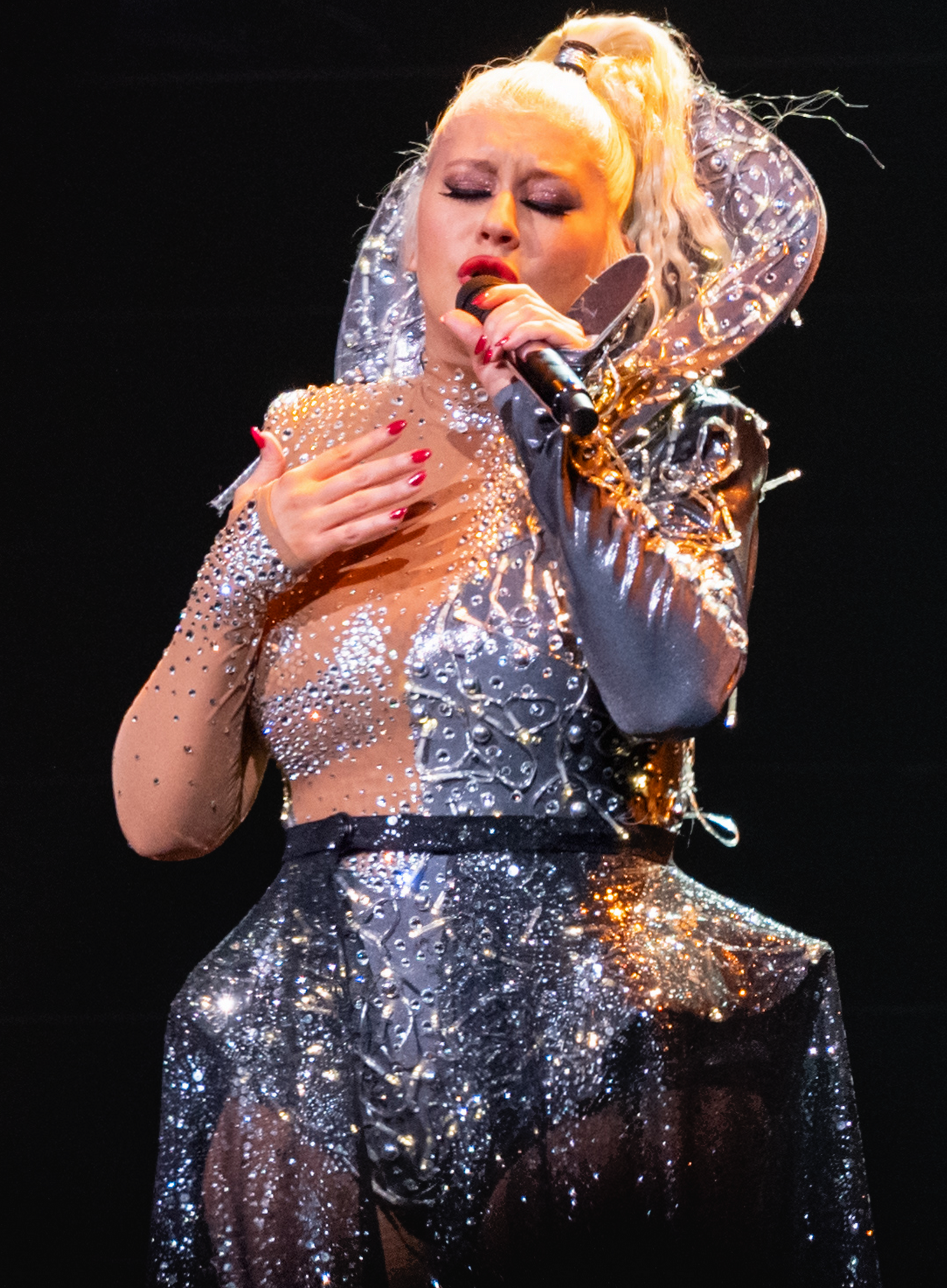 Christina Aguilera performing on The X Tour at SSE Wembley, in 2019.